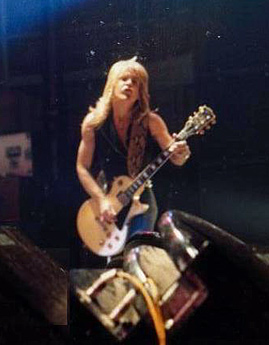 Randy Rhoads Sophia Gardens Cardiff 1980